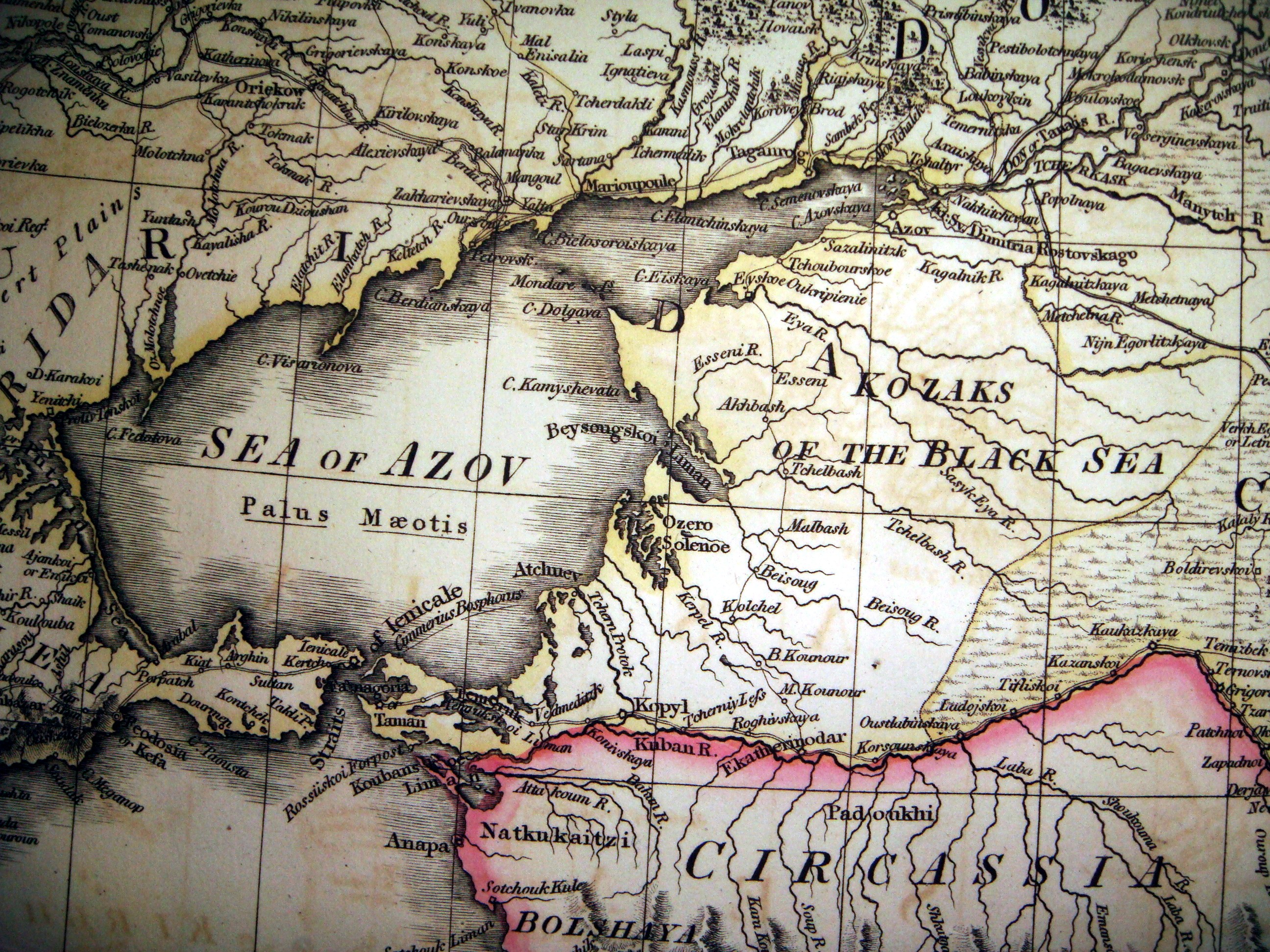 Abstract from map «The Russian Dominions in Europe», drawn from the latest maps, printed by the Academy of Since St. Petersburg, revised and corrected with the Post Roads & New Governments from the Russian Atlas of 1806 by Gaspar Nantiat, London, published by W. Faden, Geographer to His Majesty and his Royal Highness, the Prince of Wales, Charing Cross, June 4th 1808.